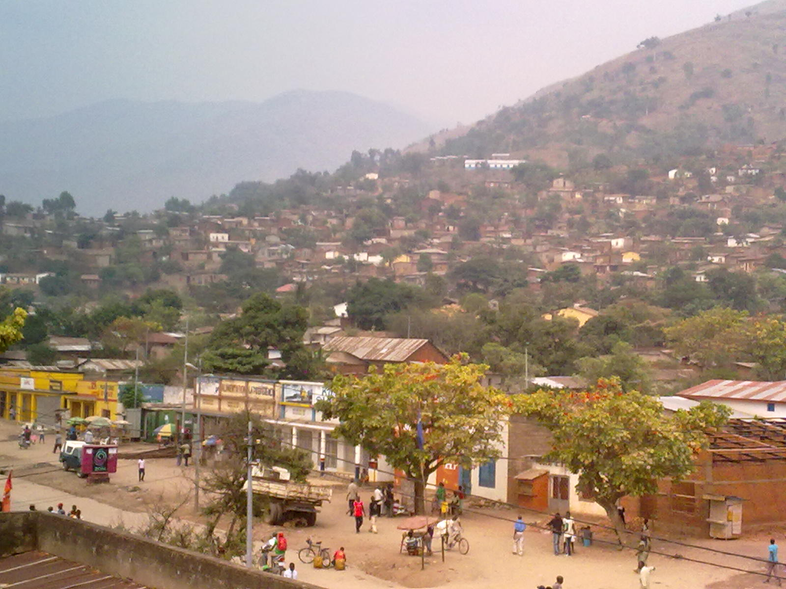 view of Uvira in Sud-Kivu territory, looking west